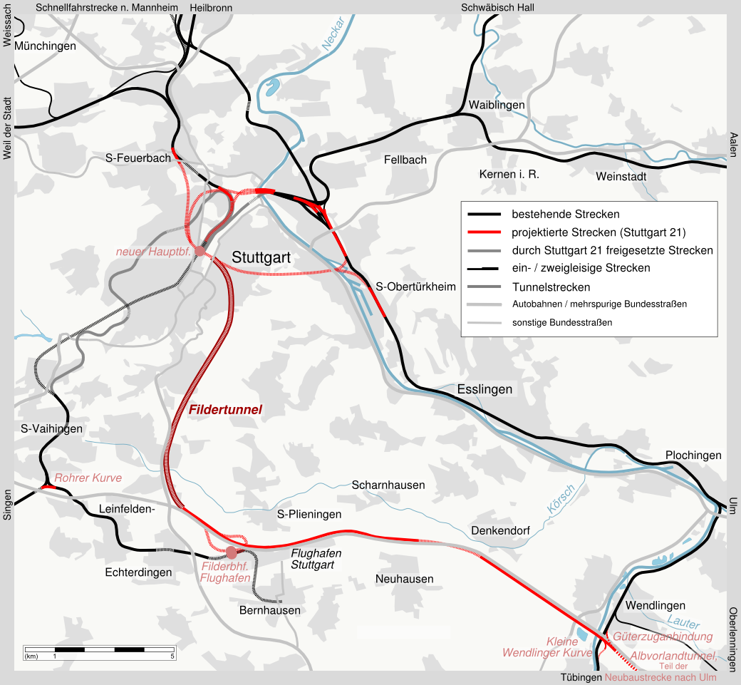 map of Filder tunnel of project Stuttgart 21.